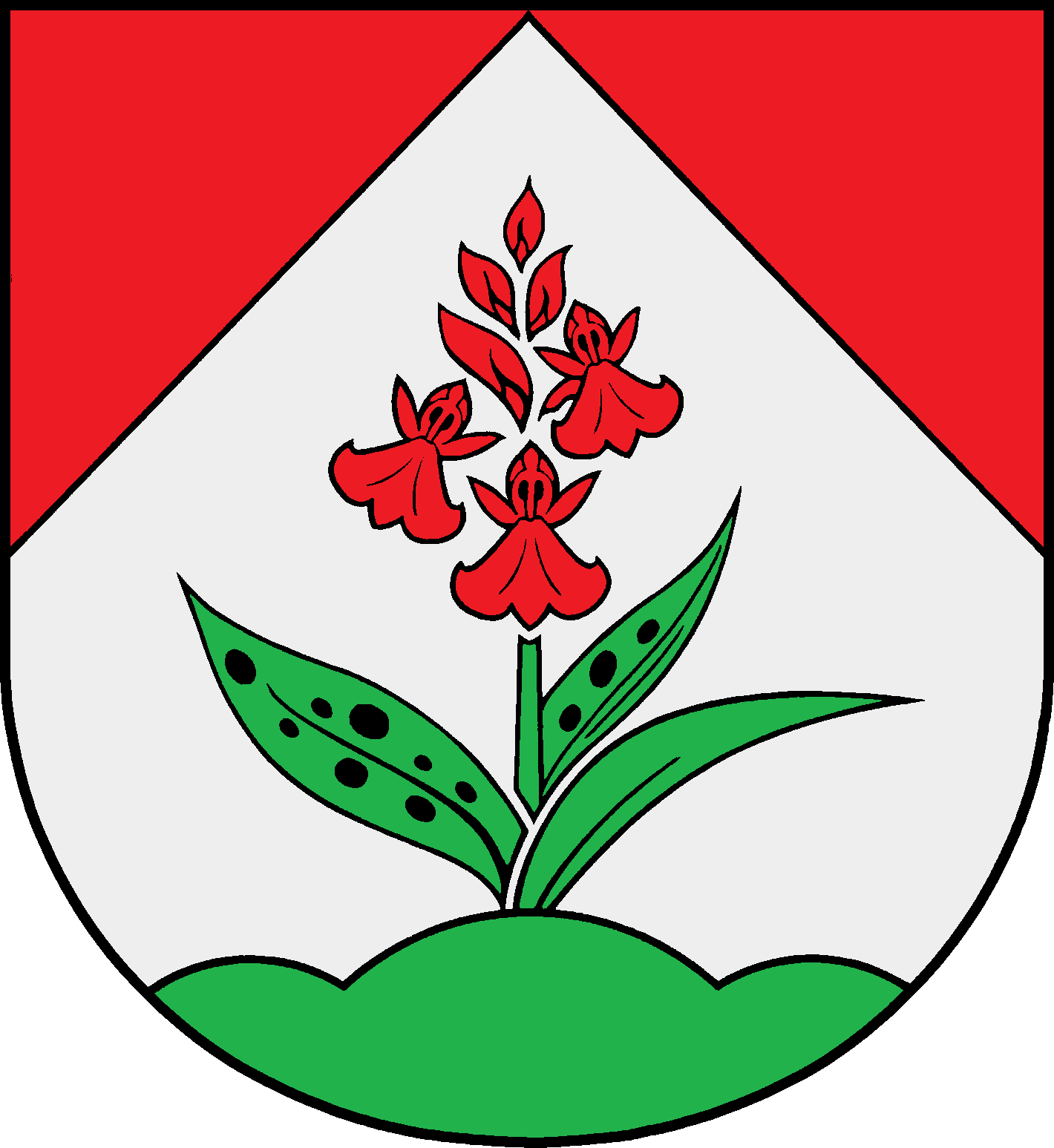 Coat of arms of the municipality Hüttblek in Schleswig-Holstein, Germany.